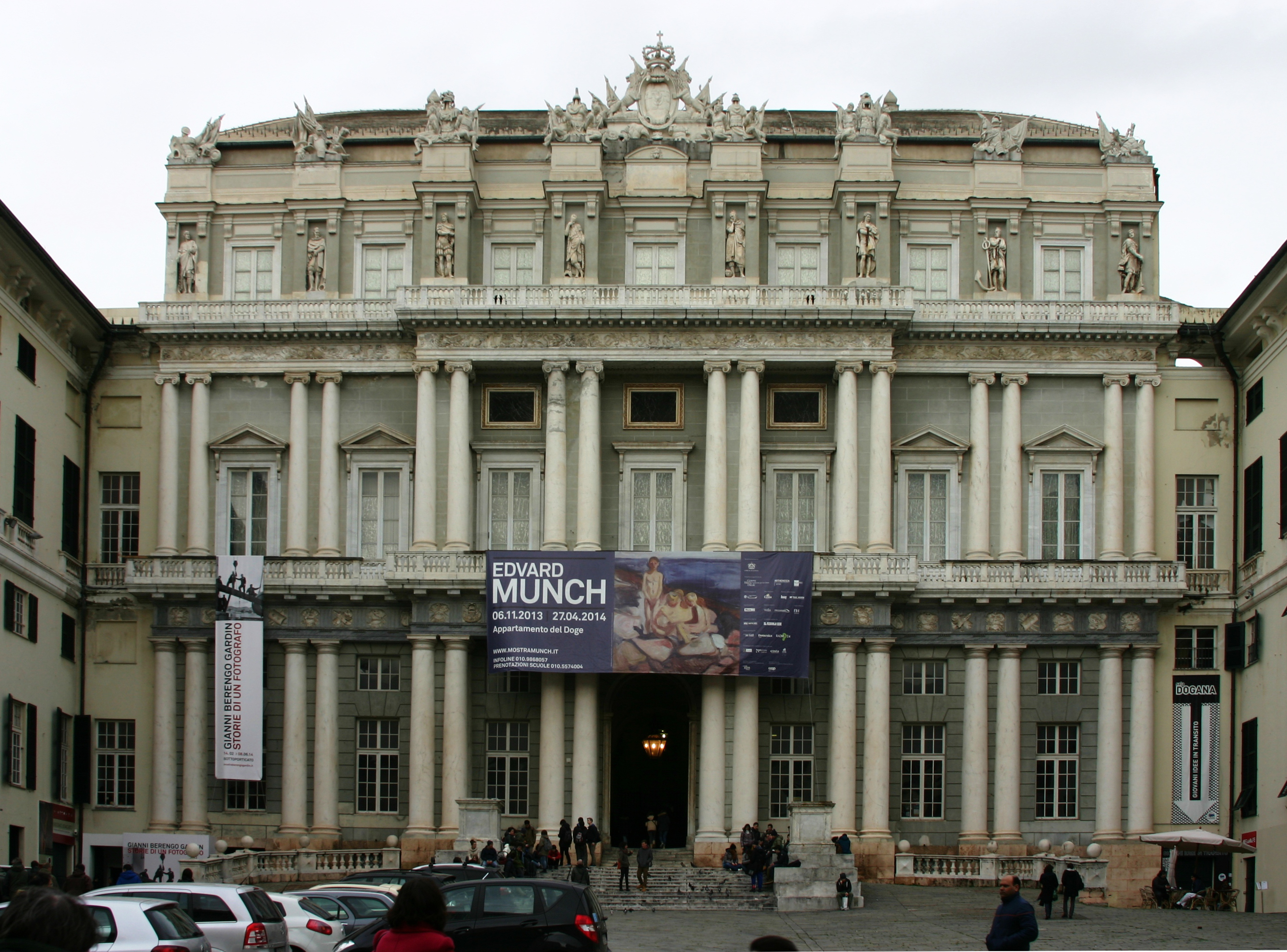 Doge's palace - Genoa 2014